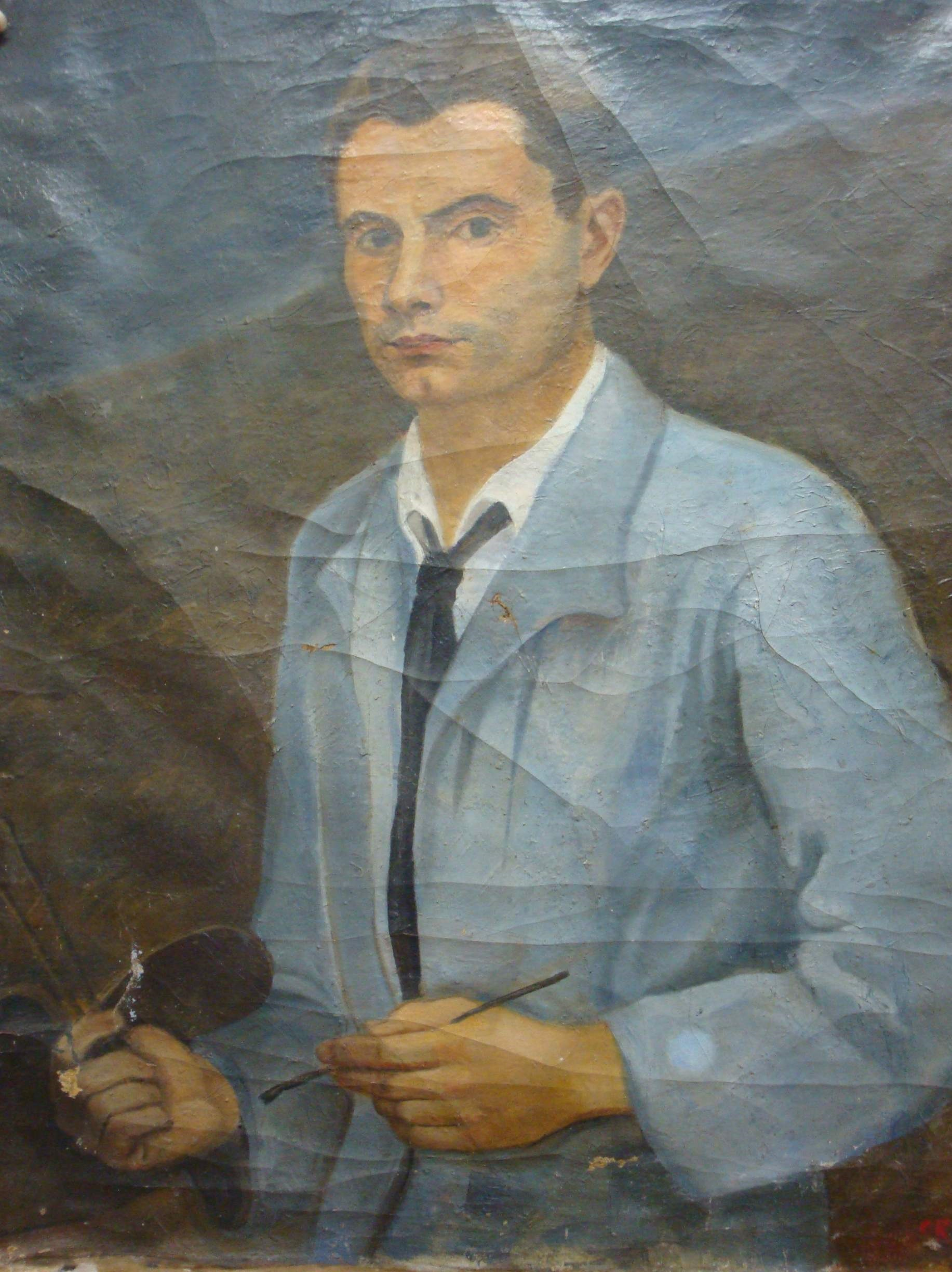 Claude de Romefort, french painter, self-portrait, oil painting on canvas executed in1942